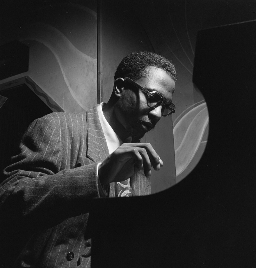 Thelonious Monk, Minton's Playhouse, New York, N.Y., ca. Sept. 1947 (Photograph by William P. Gottlieb)